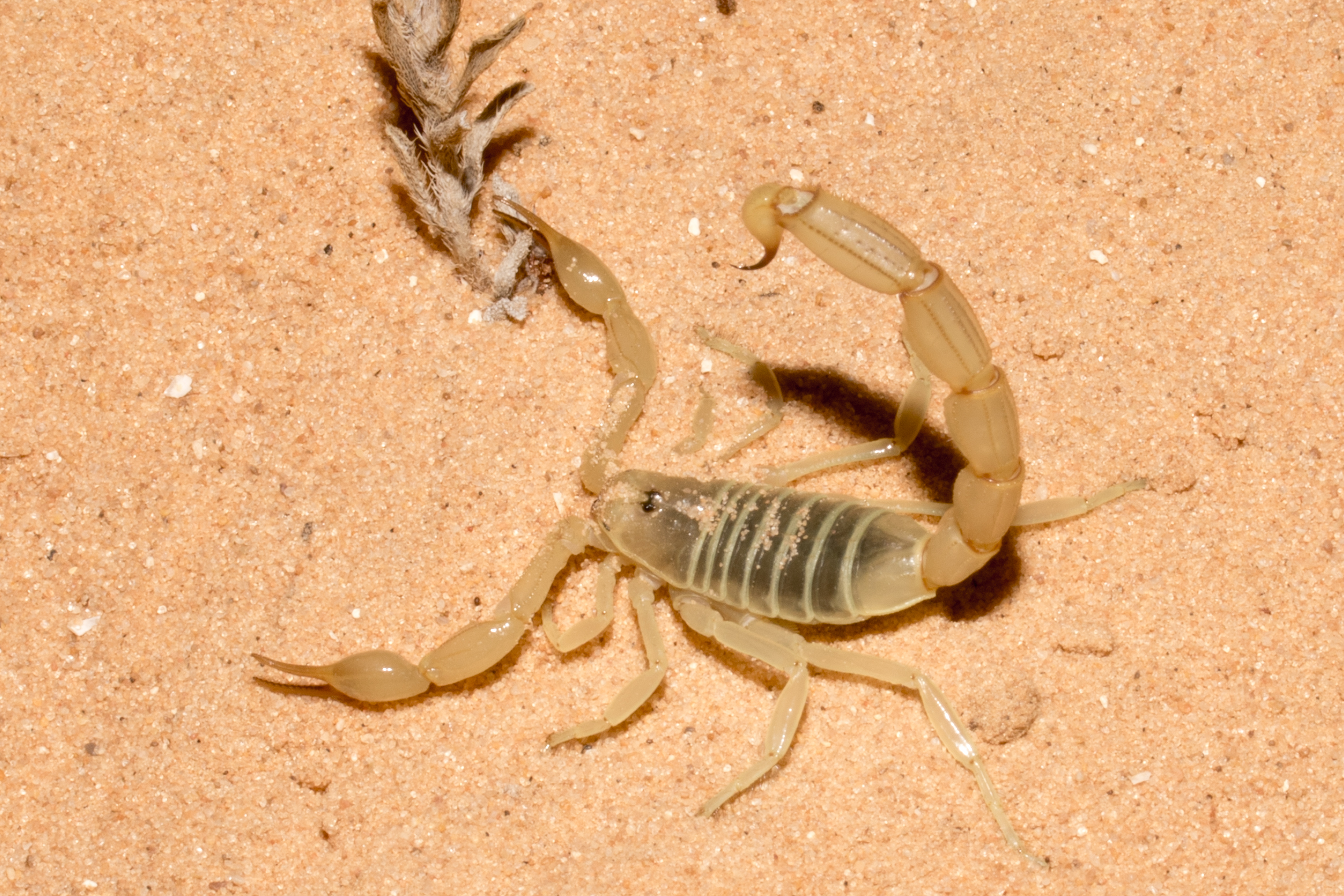 Androctonus amoreuxi. Negev desert, Israel.